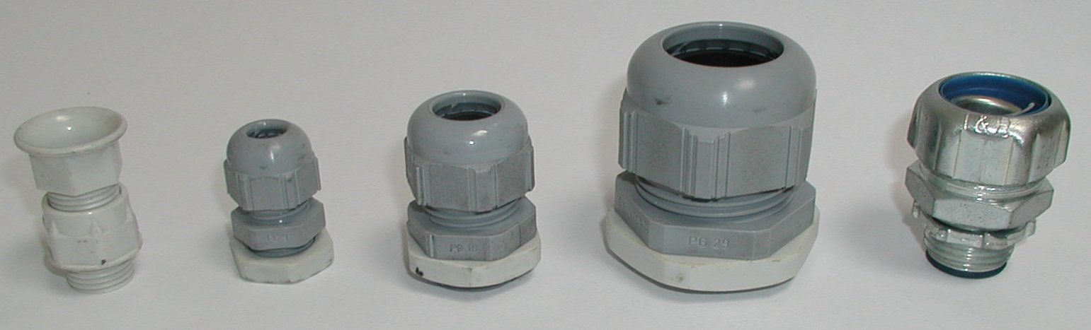 some cable glands